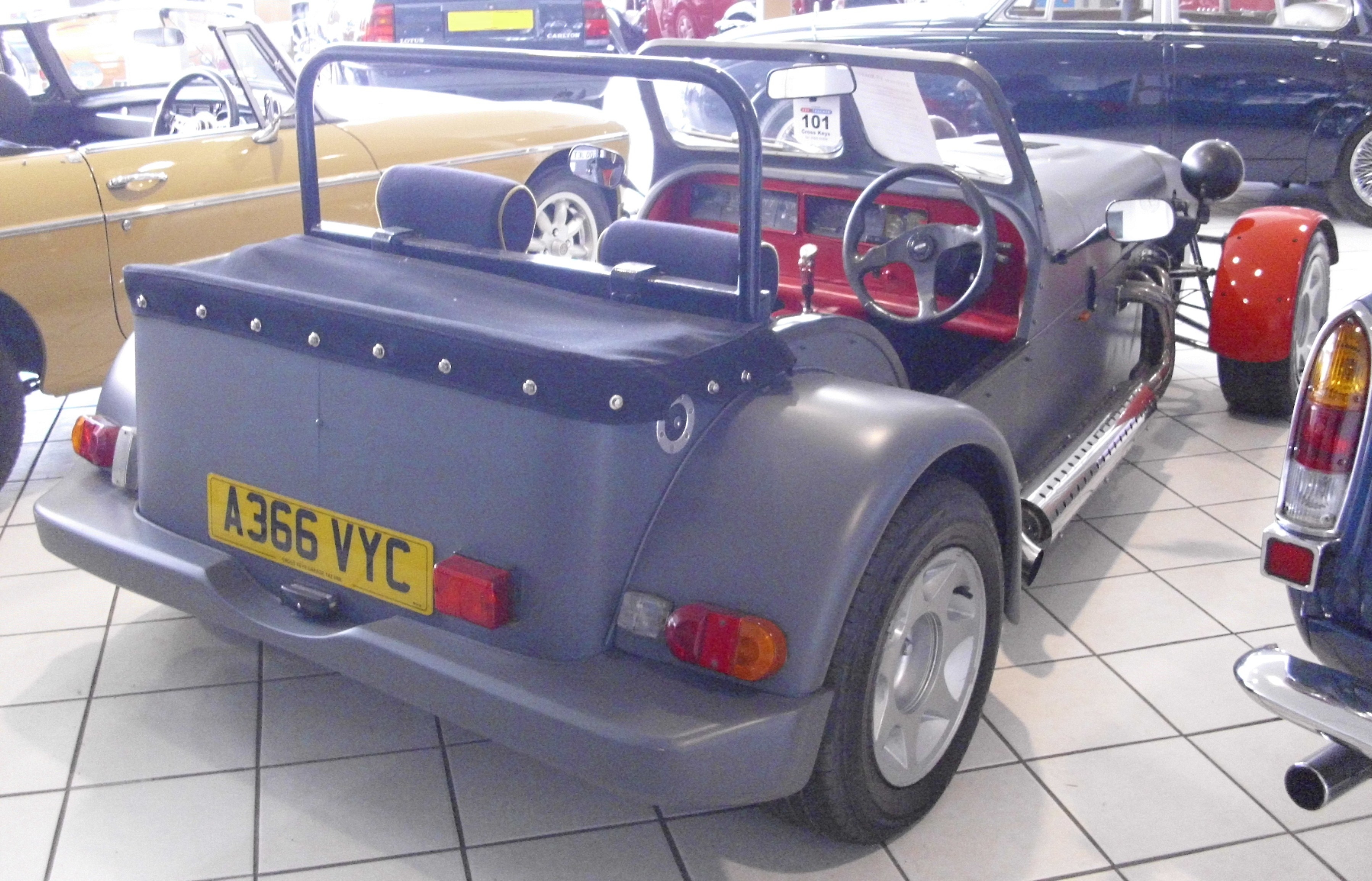 Evolution 1 Roadster 1998-2002